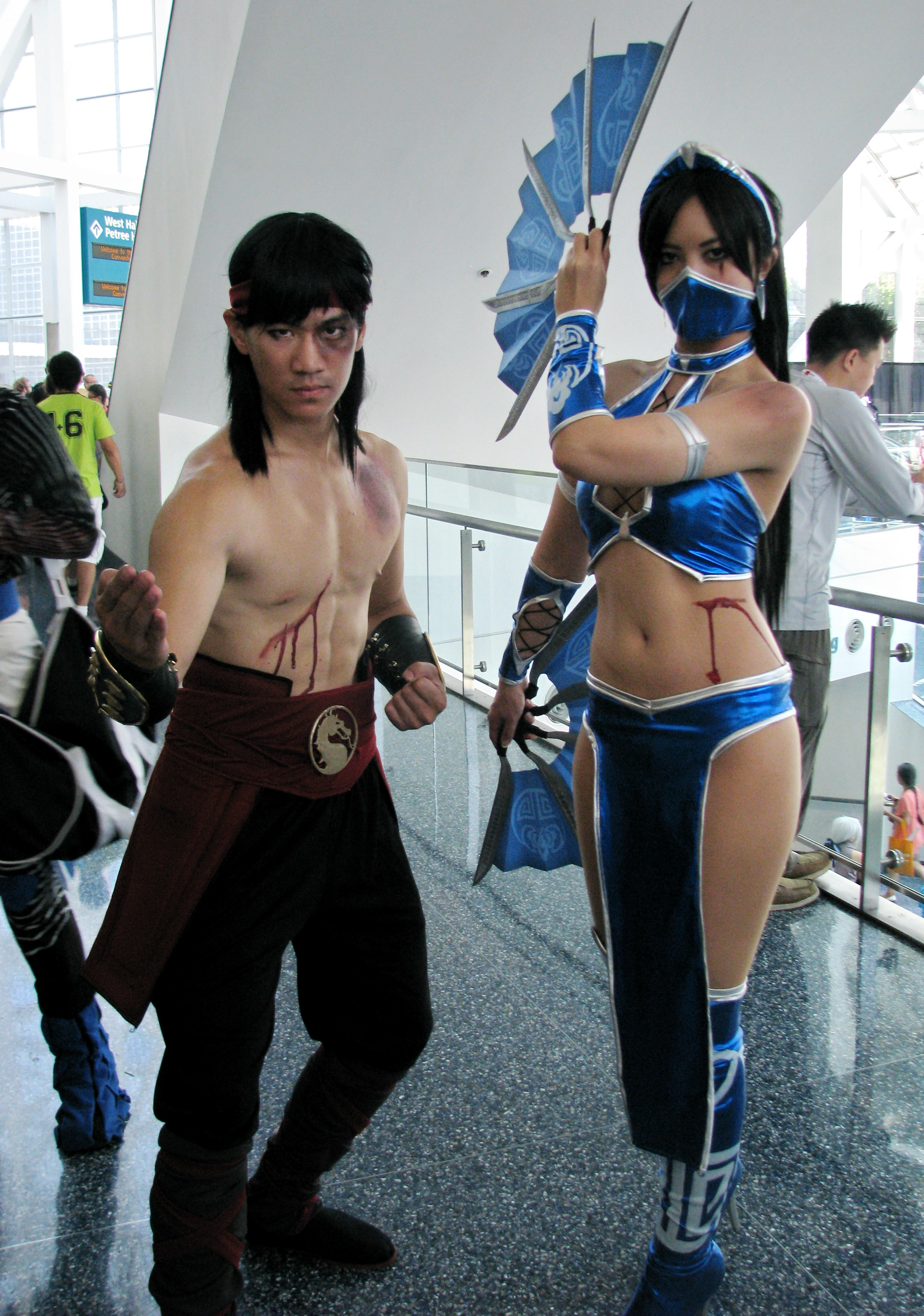 A cosplay of Lui Kang [left] and Kitana [right] from Mortal Kombat